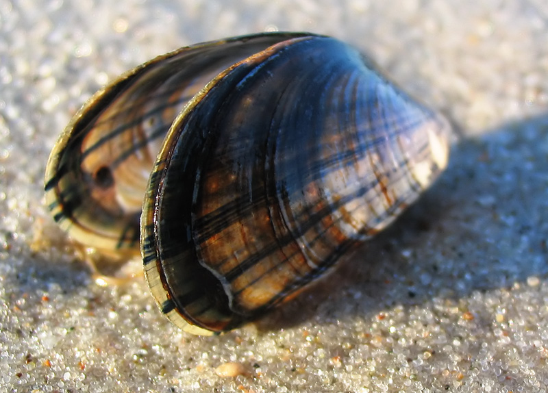 Miesmuscheln - empty shell of blue mussel (Mytilus edulis) washed up on a beach